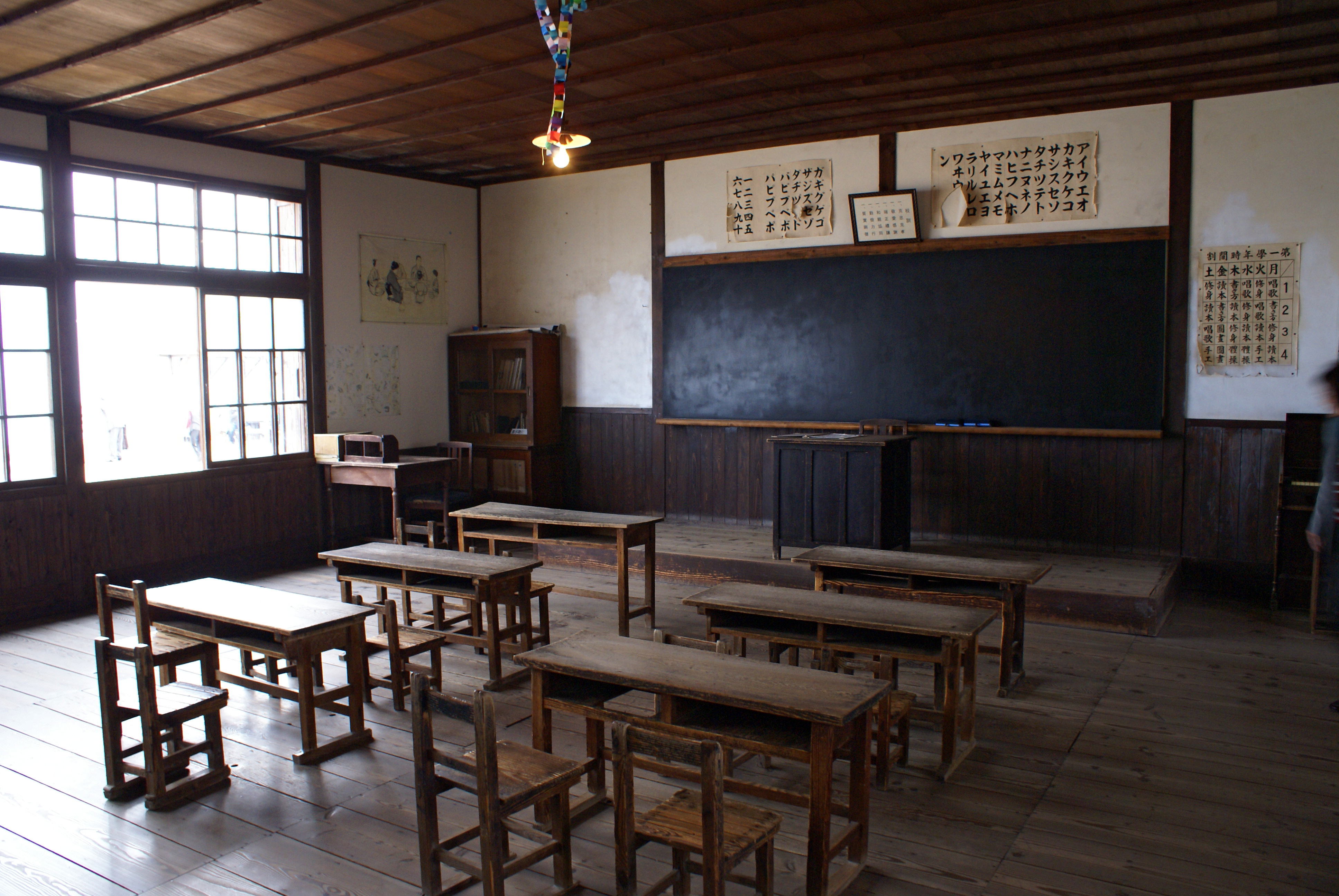 The amusement park of "Twenty-four eyes" in Shodoshima Island, Kagawa Prefecture, Japan)